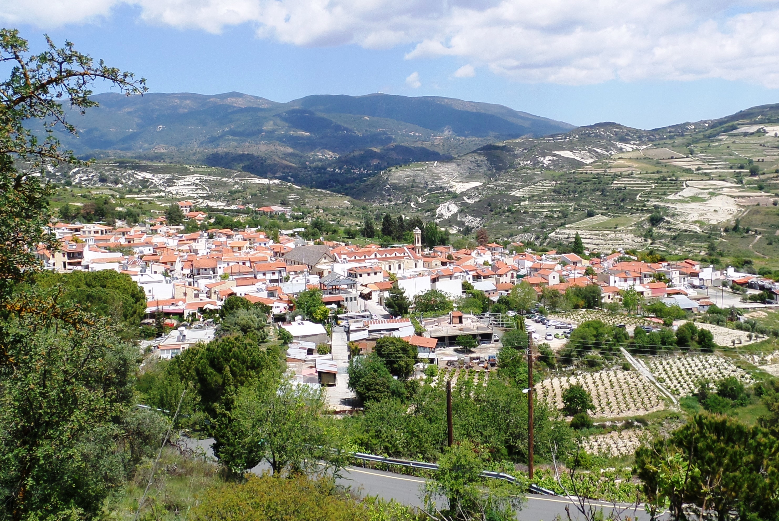 View of Omodos.